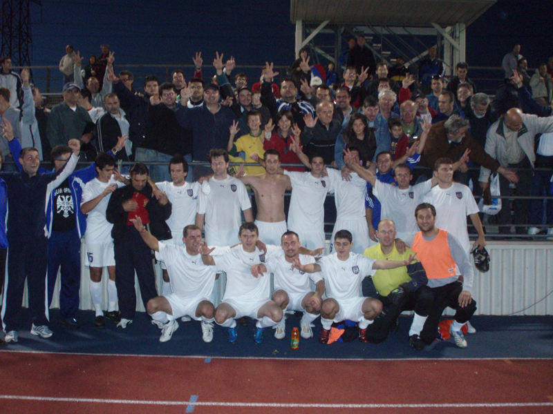 Serbian White Eagles team photo after their victory in the 2007 semifinal. The Serbian three-fingered salute can be seen. Top row: Aleksandar Krivokapić (assistant coach), Milenko Matić (physio), Milos Scepanovic, Dragan Radović, Danijel Milojević, Gabriel Pop, Milan Janošević, Alex Braletic, Mirko Medić, Dragorad Milićević, Nenad Stojčić and Zoran Kokot. Bottom row: Dragan Ćosić, Saša Viciknez, Noel Ellerton, Milan Janikic, George Radan and Arthur Zaslavski.